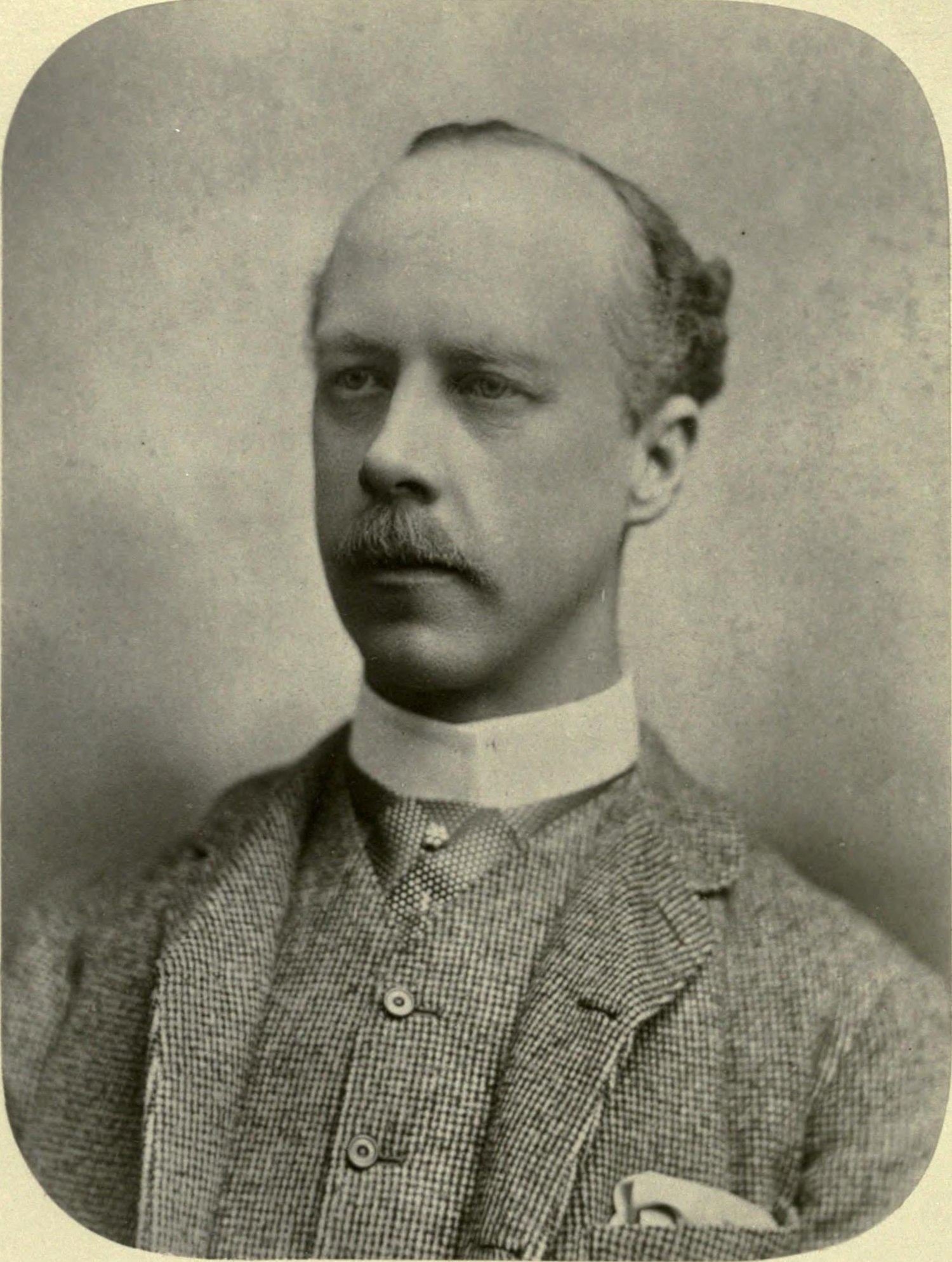 Woodburytype portrait of Robert George Wardlaw Ramsay.